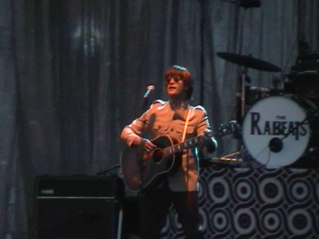 The Rabeats (Tribute to The Beatles) performing on July 31, 2009 at Mers-les-Bains (France)